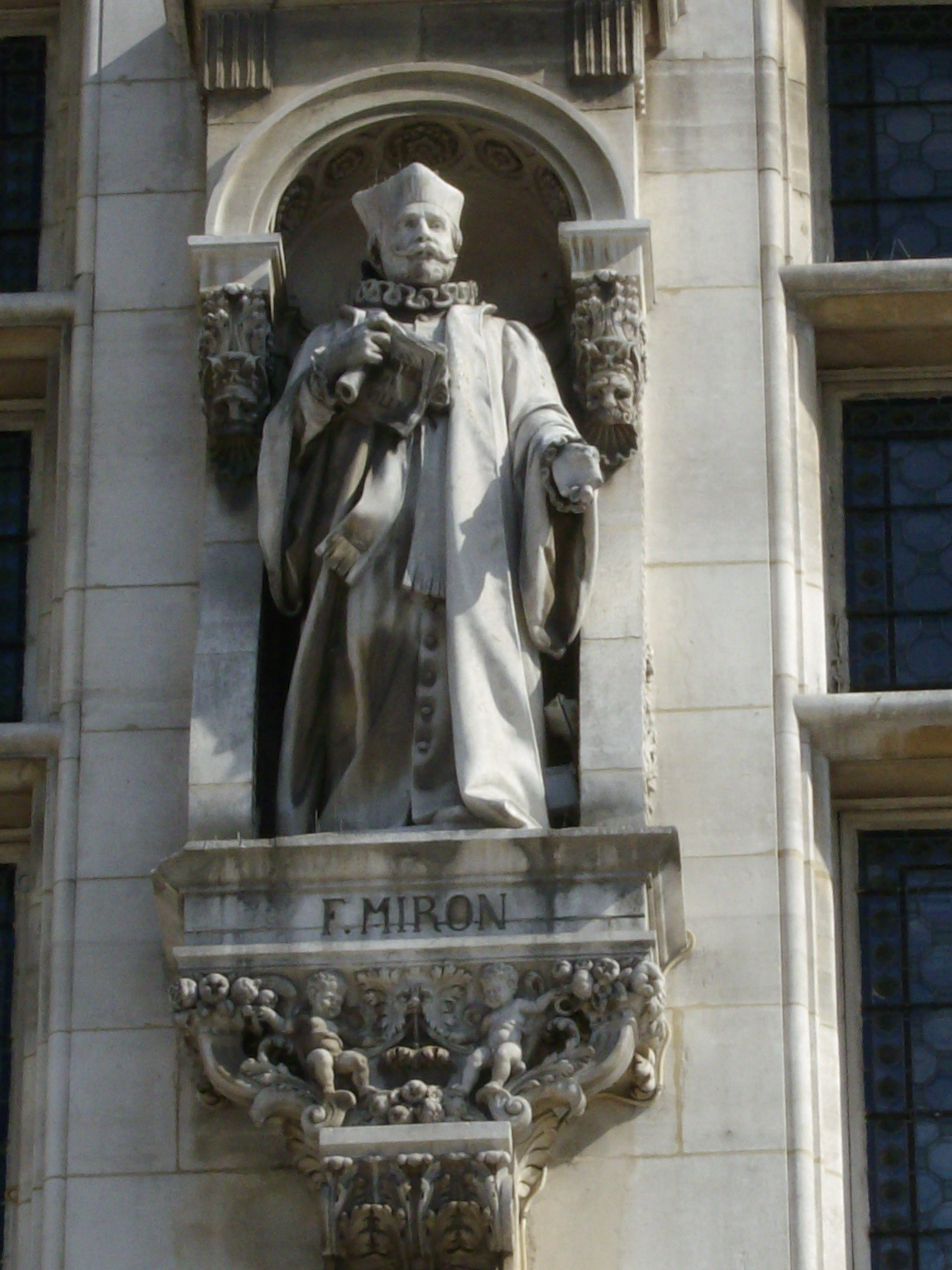 Statues of the City Hall in Paris, France